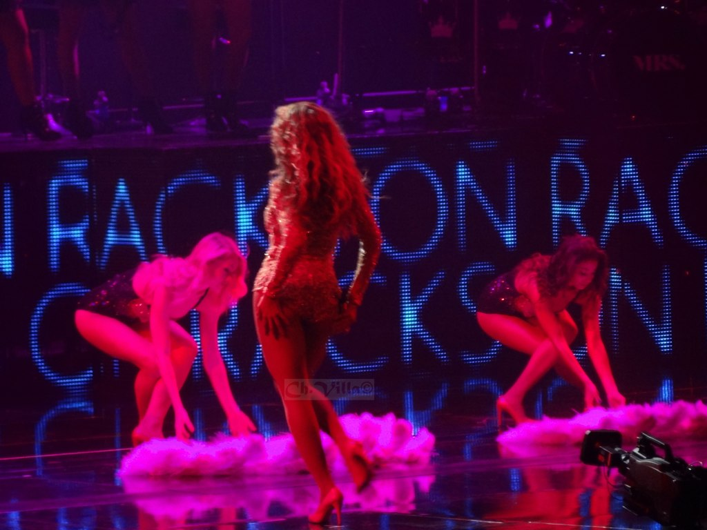 Beyonce performing "Party" in Montreal in 2013 during The Mrs. Carter Show World Tour.